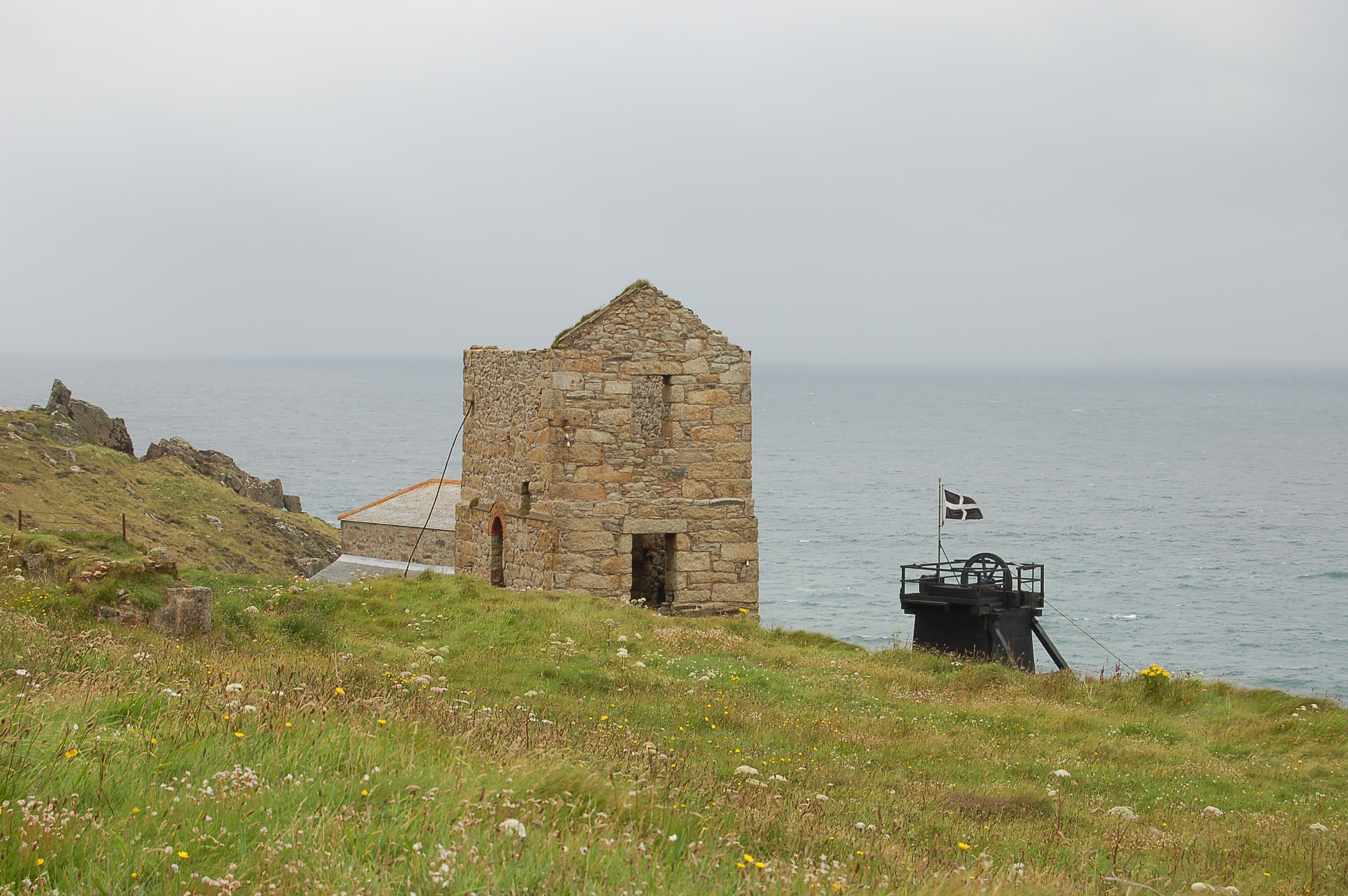 Ruine of the pumping engine house of the Levant Mine, an old tin and copper mine close to St Just in Cornwall, England.